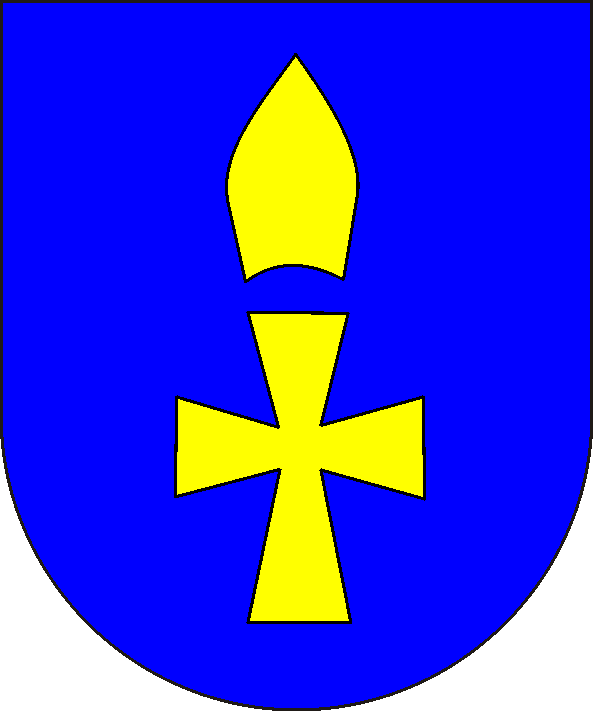 coat of arms